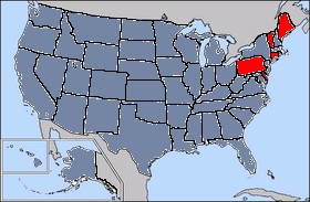 USA elections 1932 - results by state